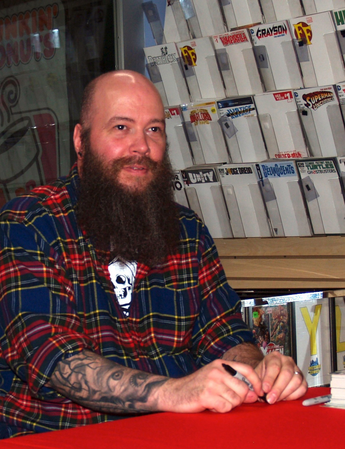 Comics writer Jason Aaron at a January 16, 2015 signing for Star Wars #1 at Midtown Comics Downtown in Manhattan. The publication of the book represented the first Star Wars comic to be published by Marvel Comics since 1987, following the acquisition of Marvel by Disney in 2009. This photo was created by Luigi Novi. It is not in the public domain, and use of this file outside of the licensing terms is a copyright violation.